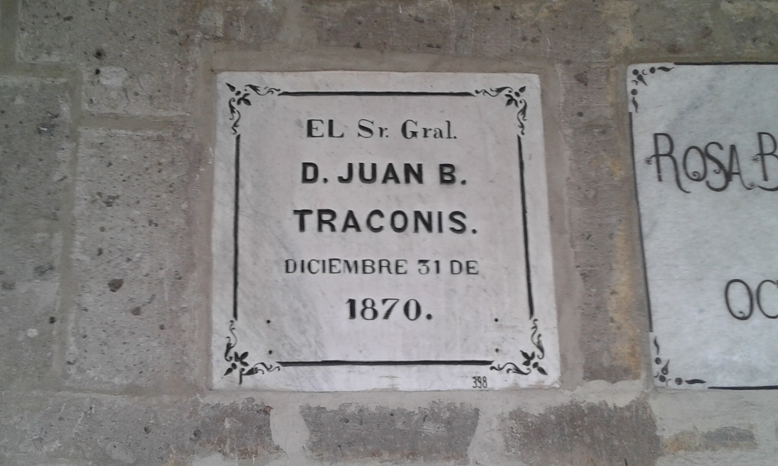 Sepulcro de Juan Bautista Traconis en el Museo Panteón San Fernando de la Ciudad de México